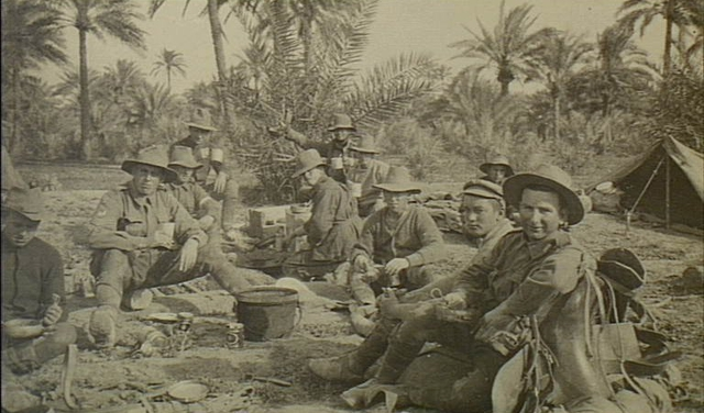 Baghdad, Mesopotamia. 1917-03-12. Members of `F' Station, 1st Wireless Signal Squadron, enjoy a meal which included comforts re-addressed by Squadron Headquarters (SHQ) from Sheikh Saad in anticipation of the troops reaching the city by that time. The joke was that the comforts reached them before their standard rations. The Squadron provided communications for the Mesopotamian Expeditionary Force during its assault on Baghdad.